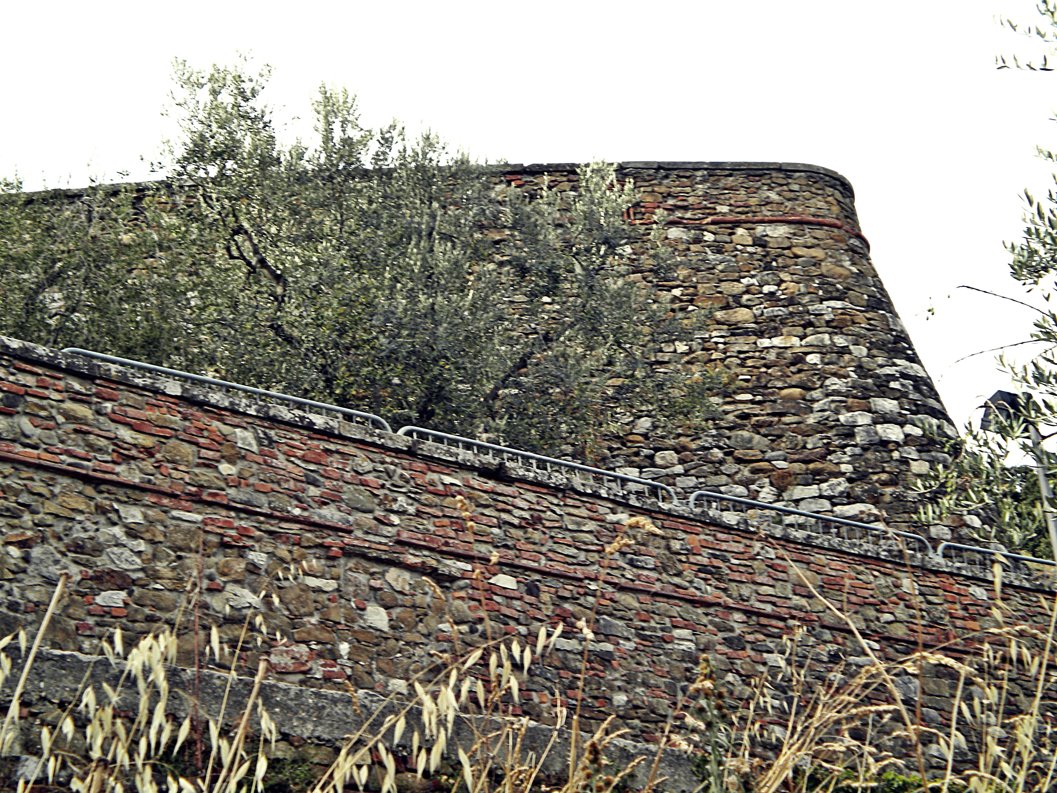 rock and keep